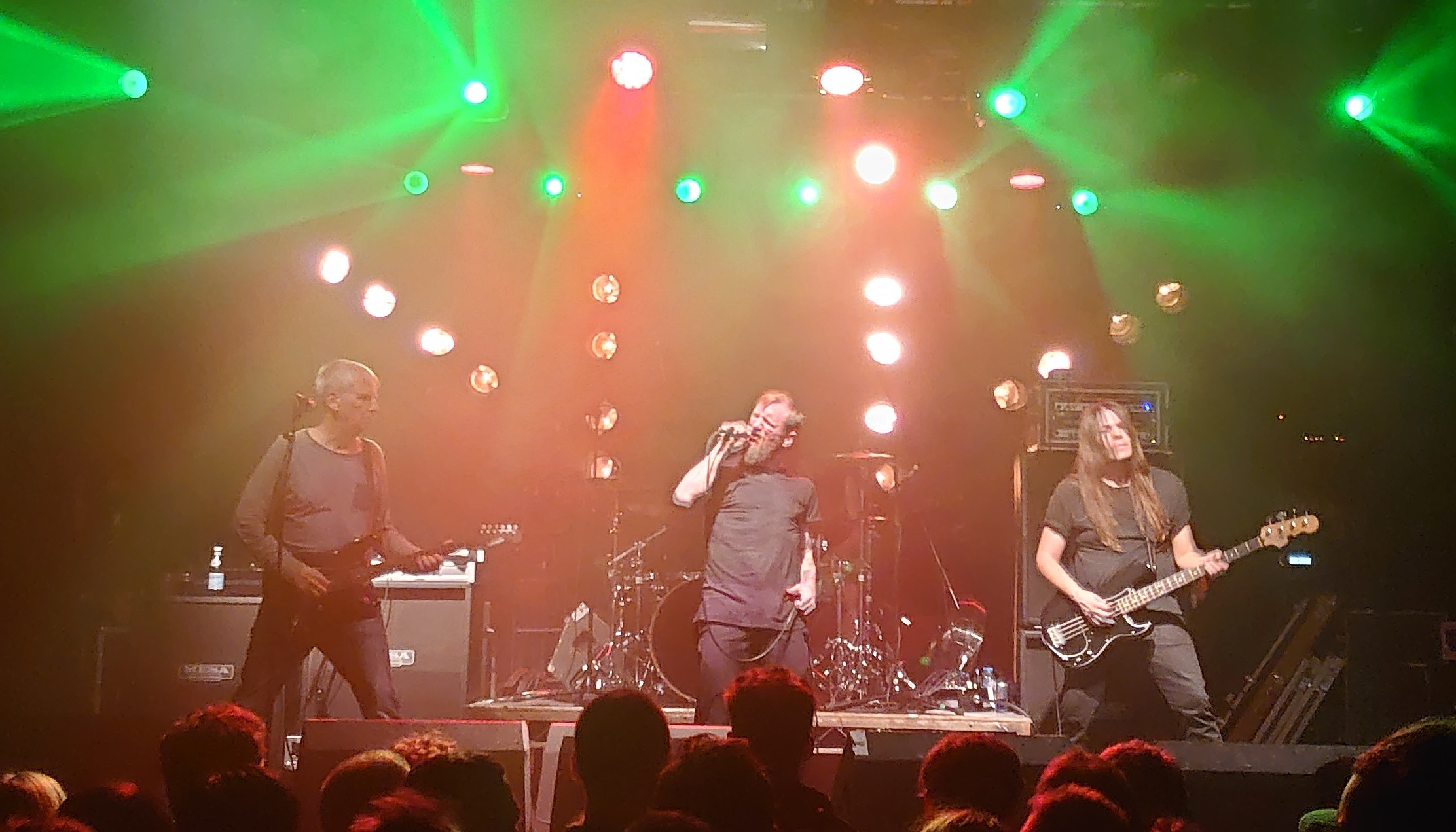 Black Flag live 2019, with Mike Vallely